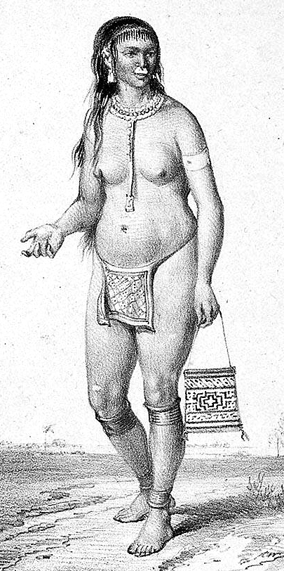 An Arawak woman in traditional dress (1830): she wears an apron made of kweyou, adorned with beads, and adorning leg and ankle bands. A silver plate serves as a nose decoration.